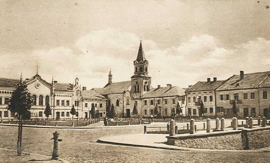 market Sanok